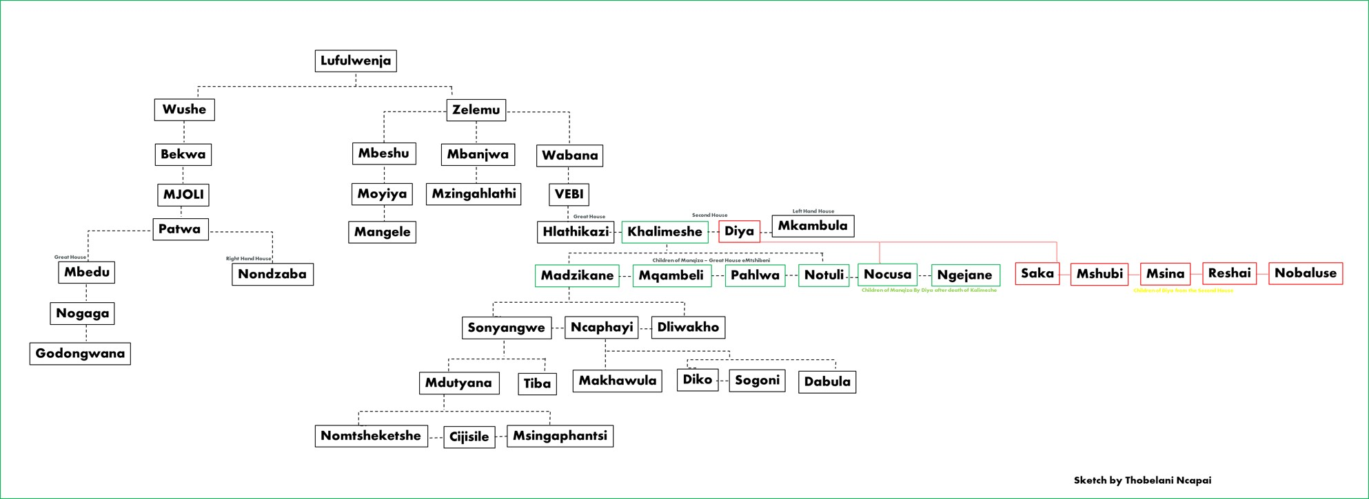 Geneology of Wushe and Zelemu